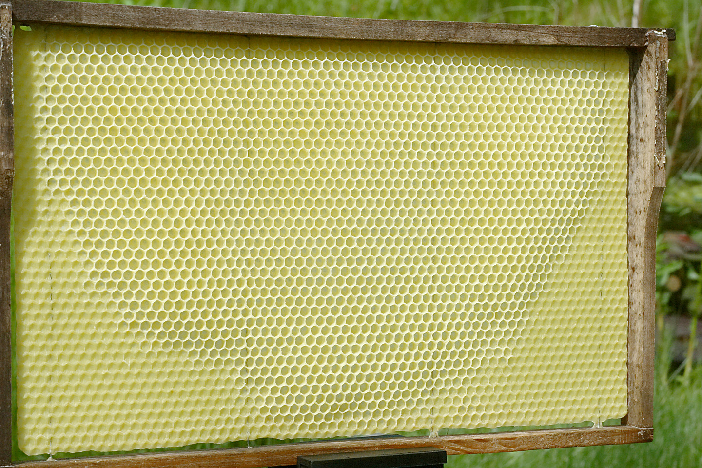 Bees have started to build a honeycomb on a beeswax foundation.